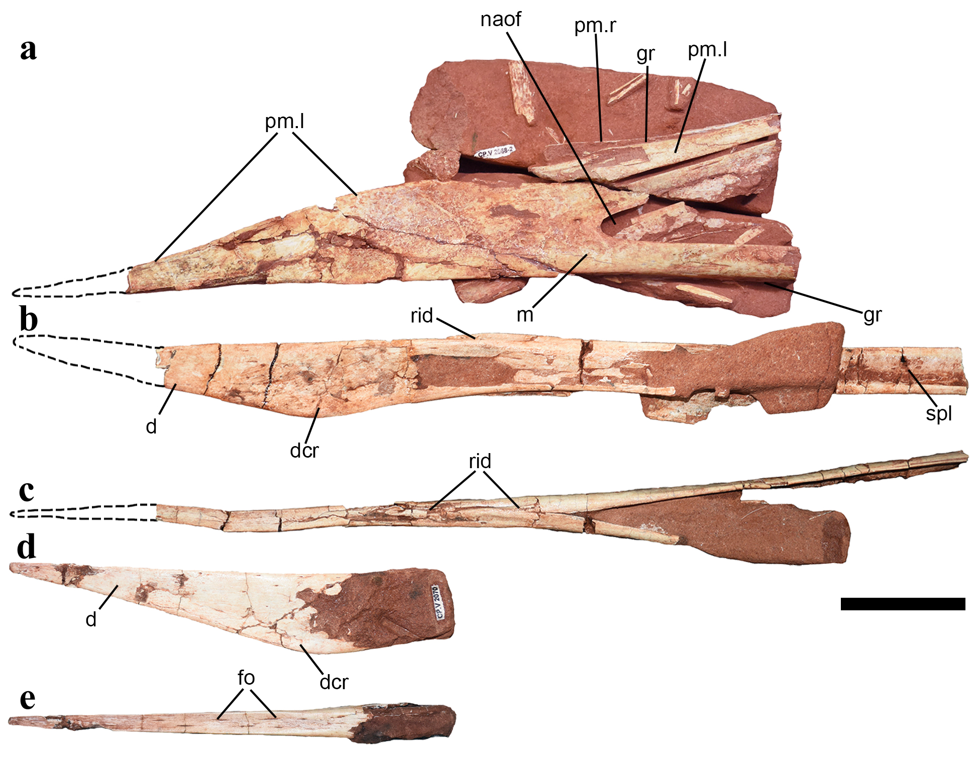 Figure 4. Skull and lower jaws of Keresdrakon vilsoni gen. et sp. nov. (a) Incomplete skull showing the rostral part, in left lateral view (CP.V 2068), (b) incomplete lower jaw (CP.V 2069 part of the holotype) in left lateral and (c) dorsal views, (d) anterior portion of a dentary (CP.V 2070) in left lateral and (e) dorsal views. Abbreviations: d - dentary, dcr - dentary crest, fo - foramina, gr - groove, m - maxilla, naof - nasoantorbital fenestra, pm - premaxilla, rid - ridge, spl - splenial; l - left, r - right. Scale bar = 50mm.